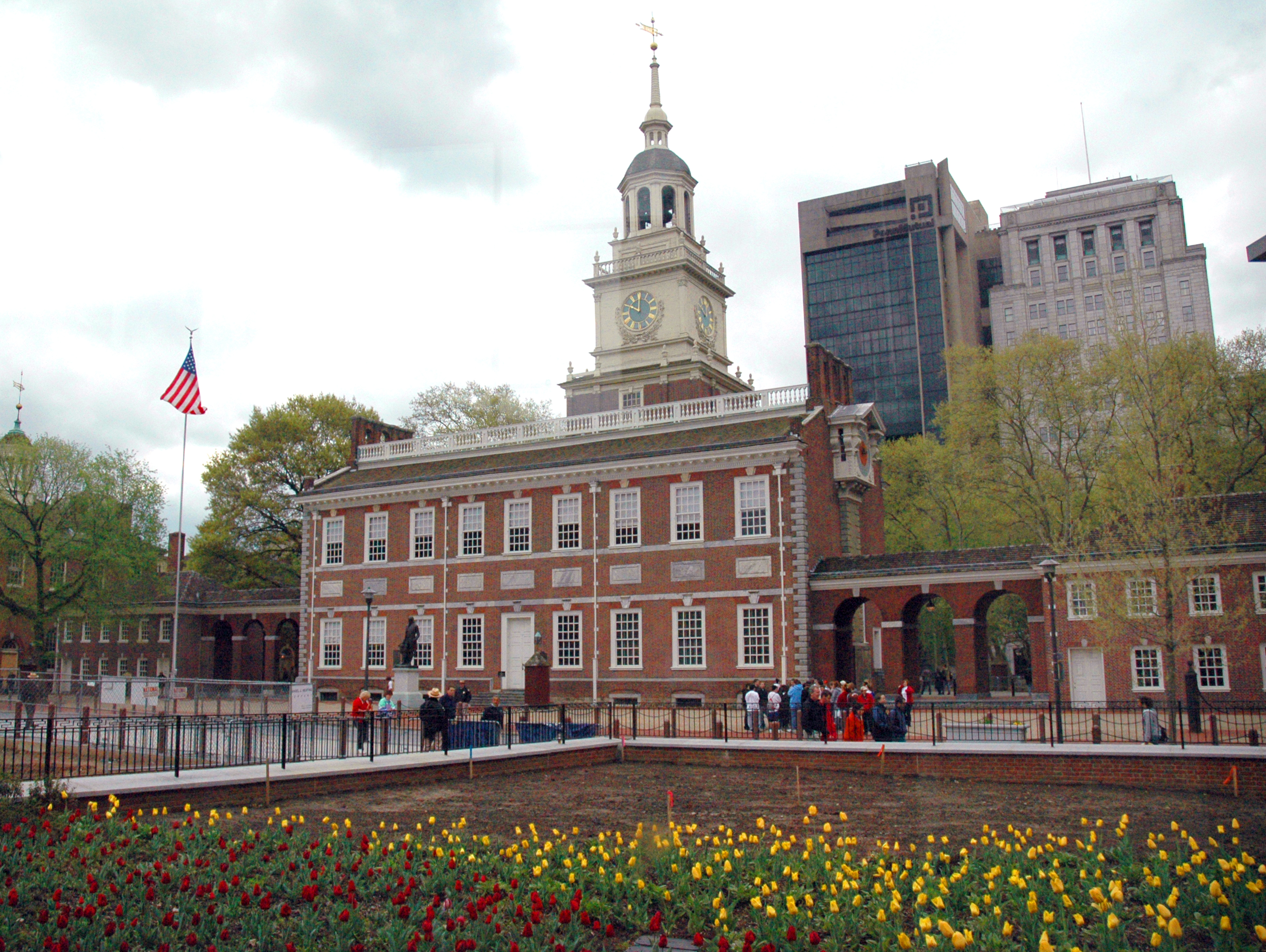 The front of Independence Hall in Philadelphia, Pennsylvania